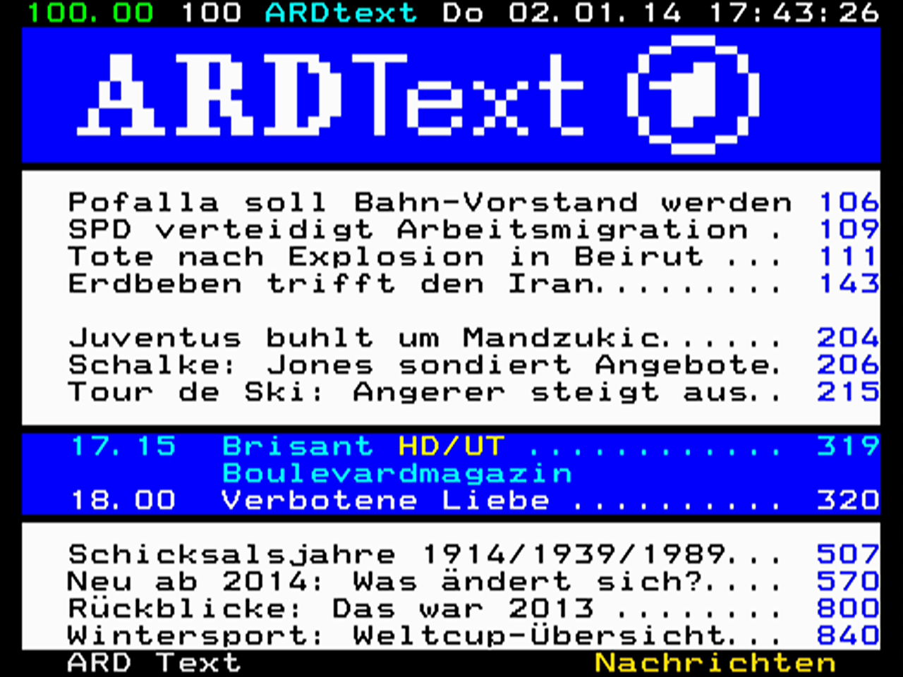 Teletext page 100 of German public broadcaster ARD